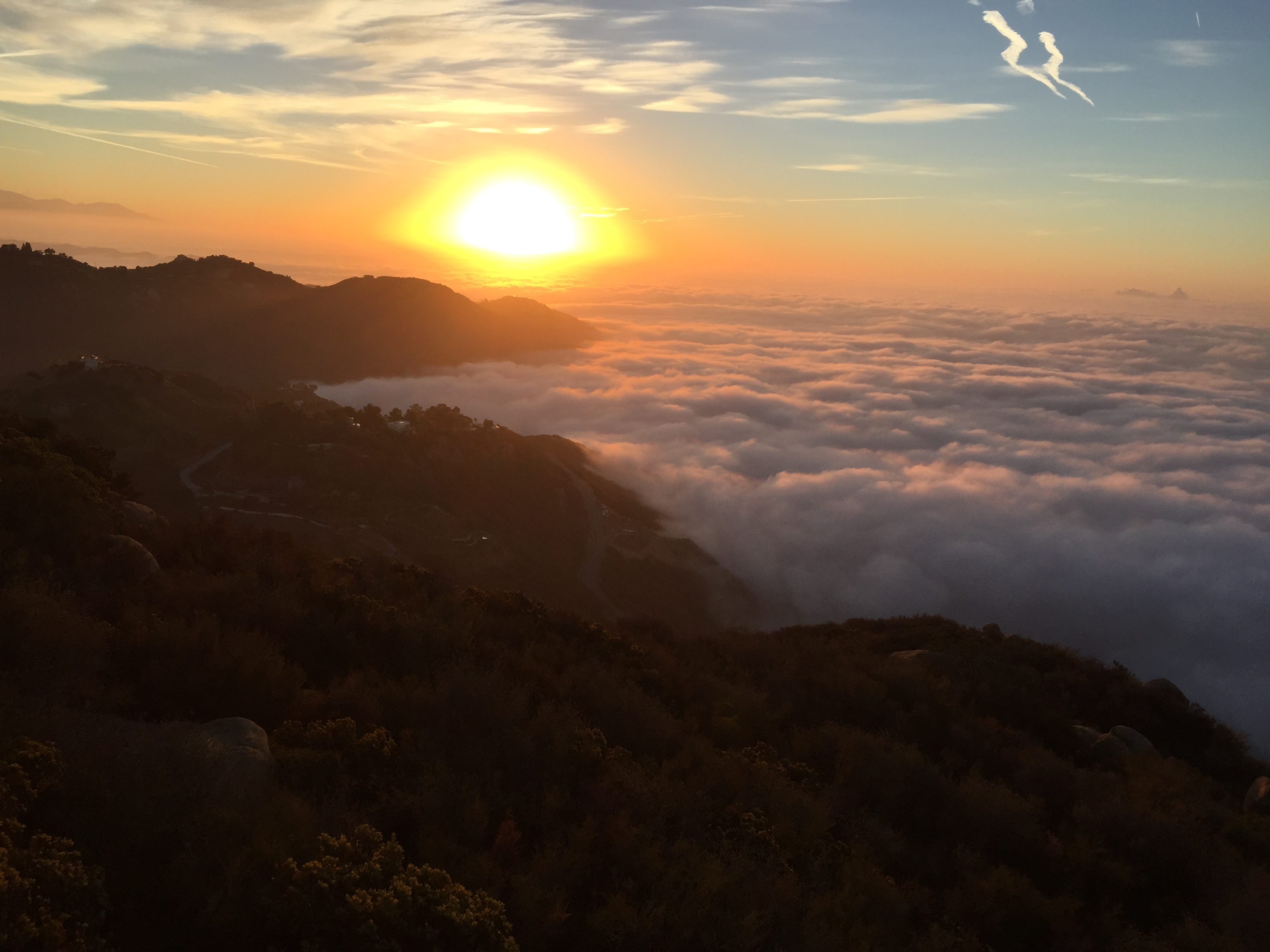 Photographed from the top of Saddle Peak, near Malibu California.